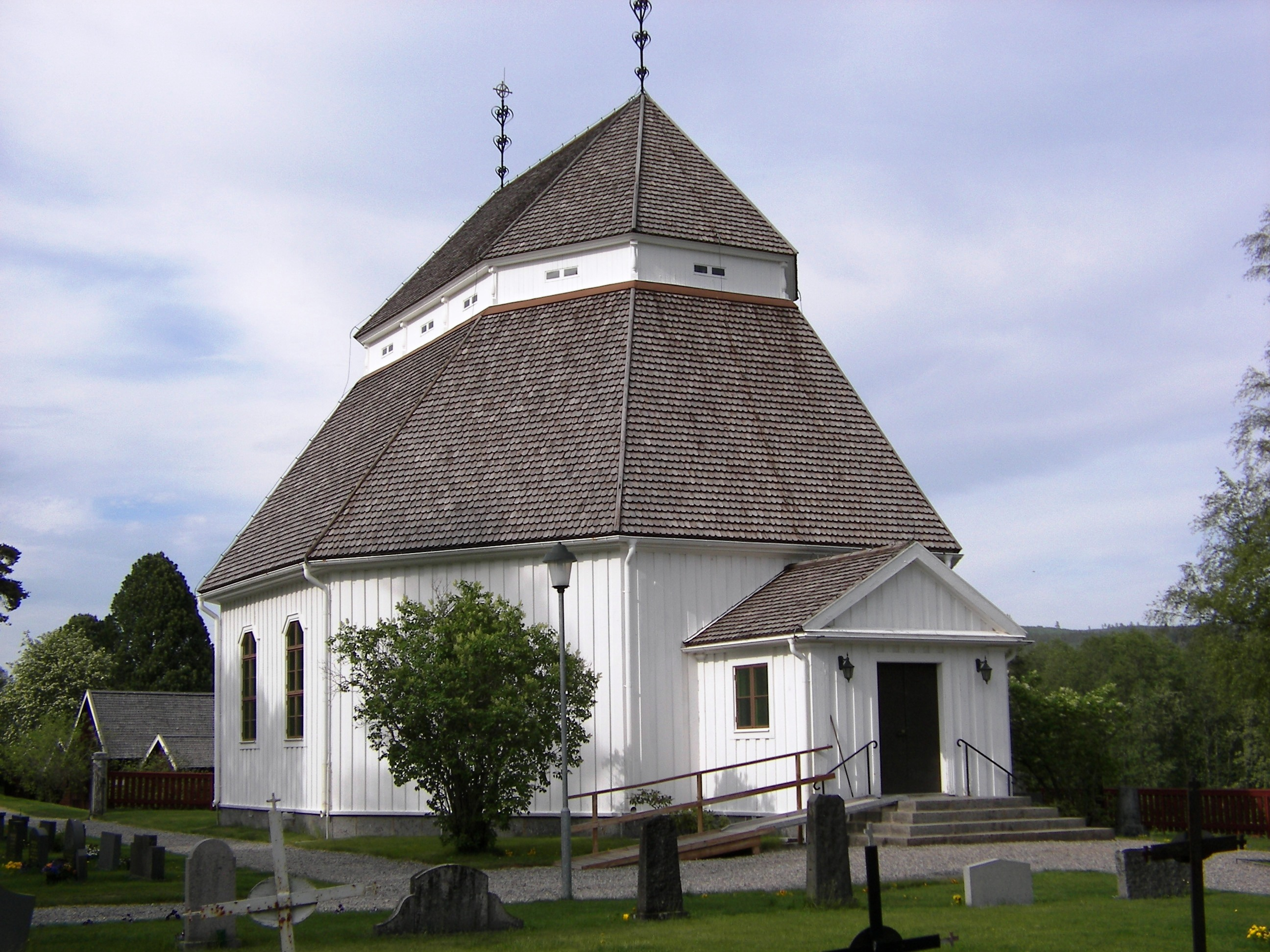 Viksjö church, Sweden - as seen from southwest